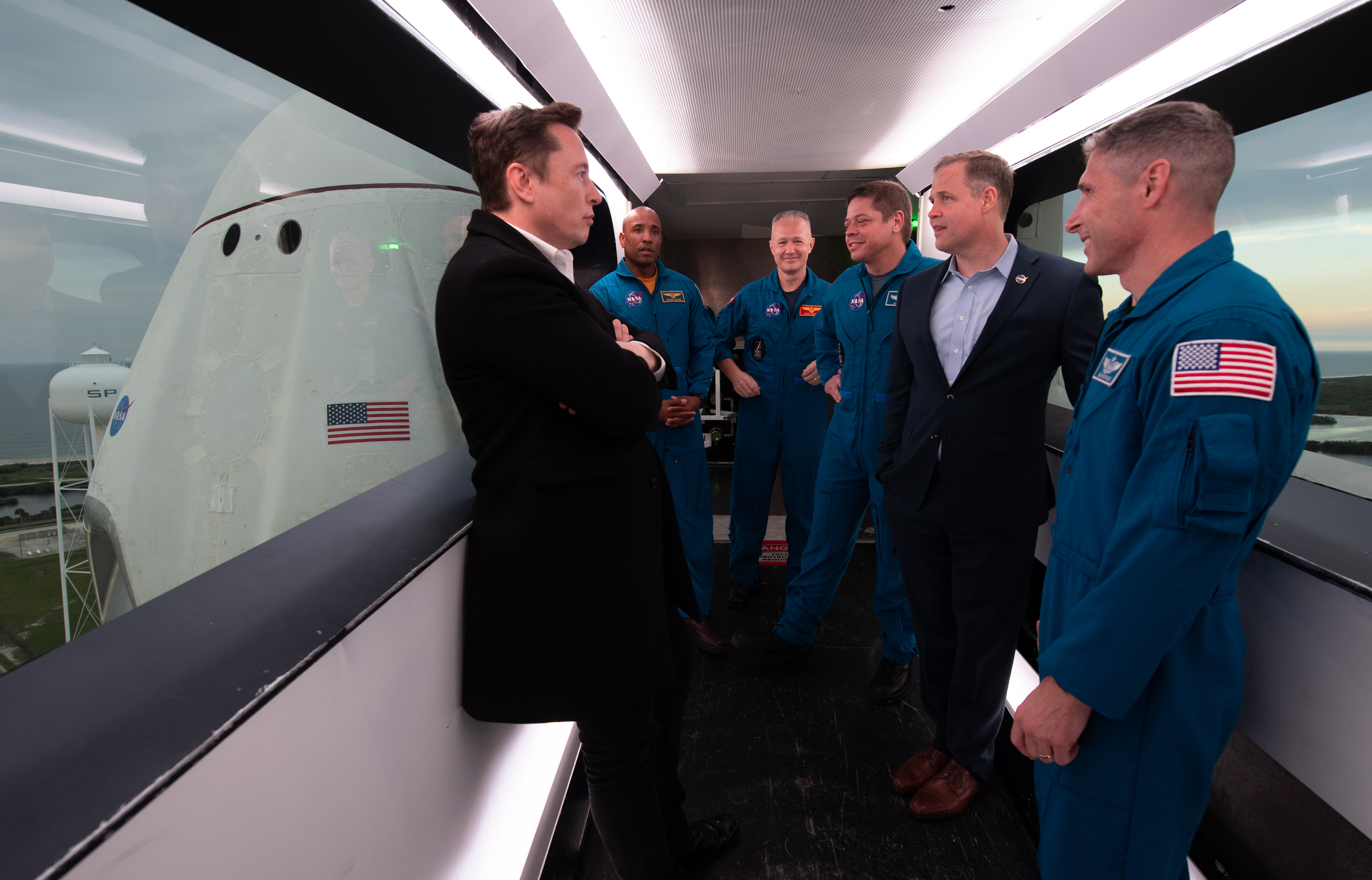 SpaceX CEO and Chief Designer Elon Musk, left, NASA astronauts Victor Glover, Doug Hurley, Bob Behnken, NASA Administrator Jim Bridenstine, and NASA astronaut Mike Hopkins are seen inside the crew access arm with the SpaceX Crew Dragon spacecraft visible behind them during a tour of Launch Complex 39A before the early Sunday morning launch of the Demo-1 mission, Friday, March 1, 2019 at the Kennedy Space Center in Florida. The Demo-1 mission launched at 2:49am ET on Saturday, March 2 and was the first launch of a commercially built and operated American spacecraft and space system designed for humans as part of NASA's Commercial Crew Program. The mission will serve as an end-to-end test of the system's capabilities. Hurley and Behnken are assigned to fly onboard Crew Dragon for the Demo-2 mission and Glover and Hopkins have been assigned to fly to the International Space Station on Crew Dragon's first operational mission. Photo Credit: (NASA/Joel Kowsky)